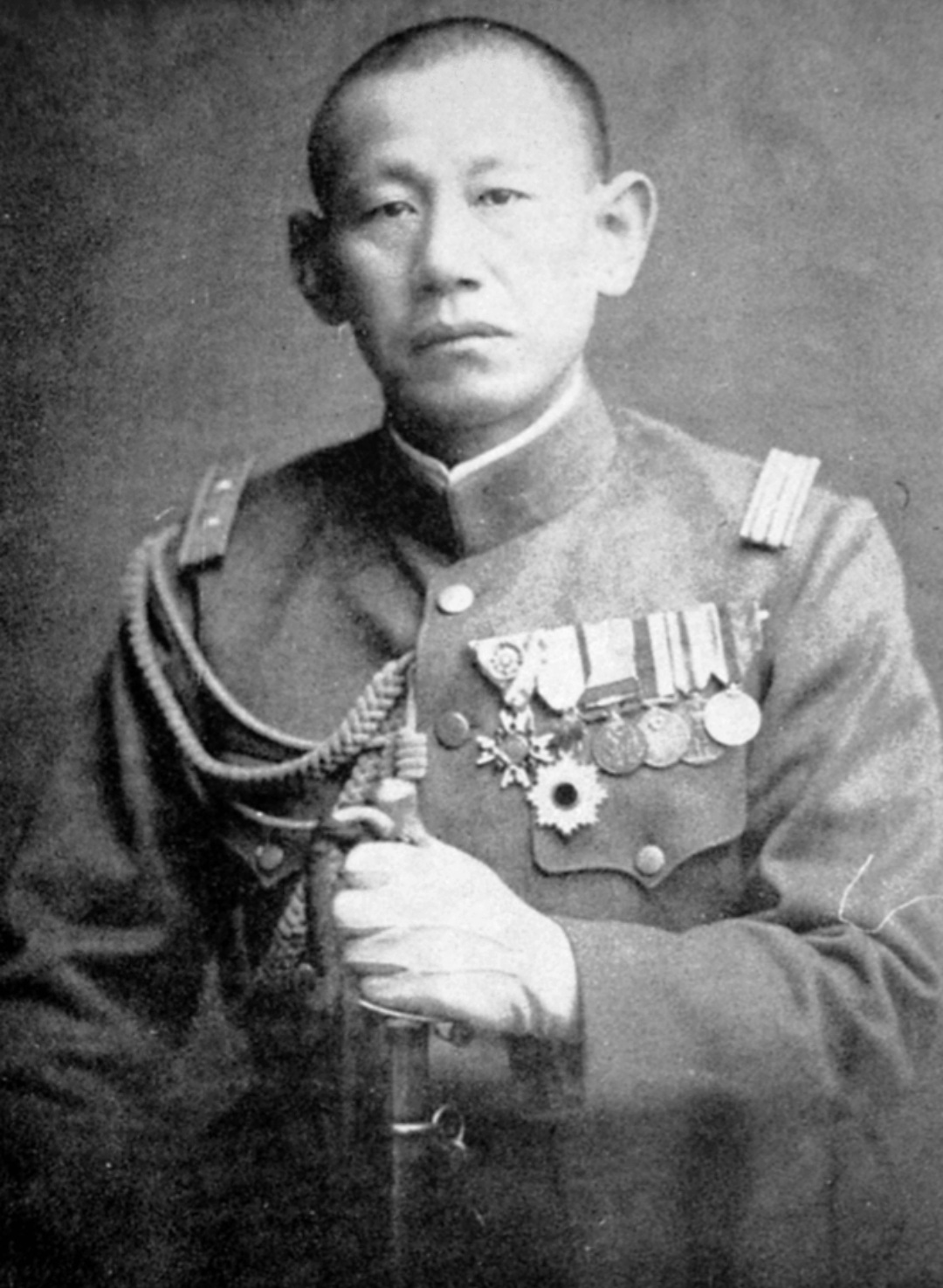 Colonel Kingoro Hashimoto at time of